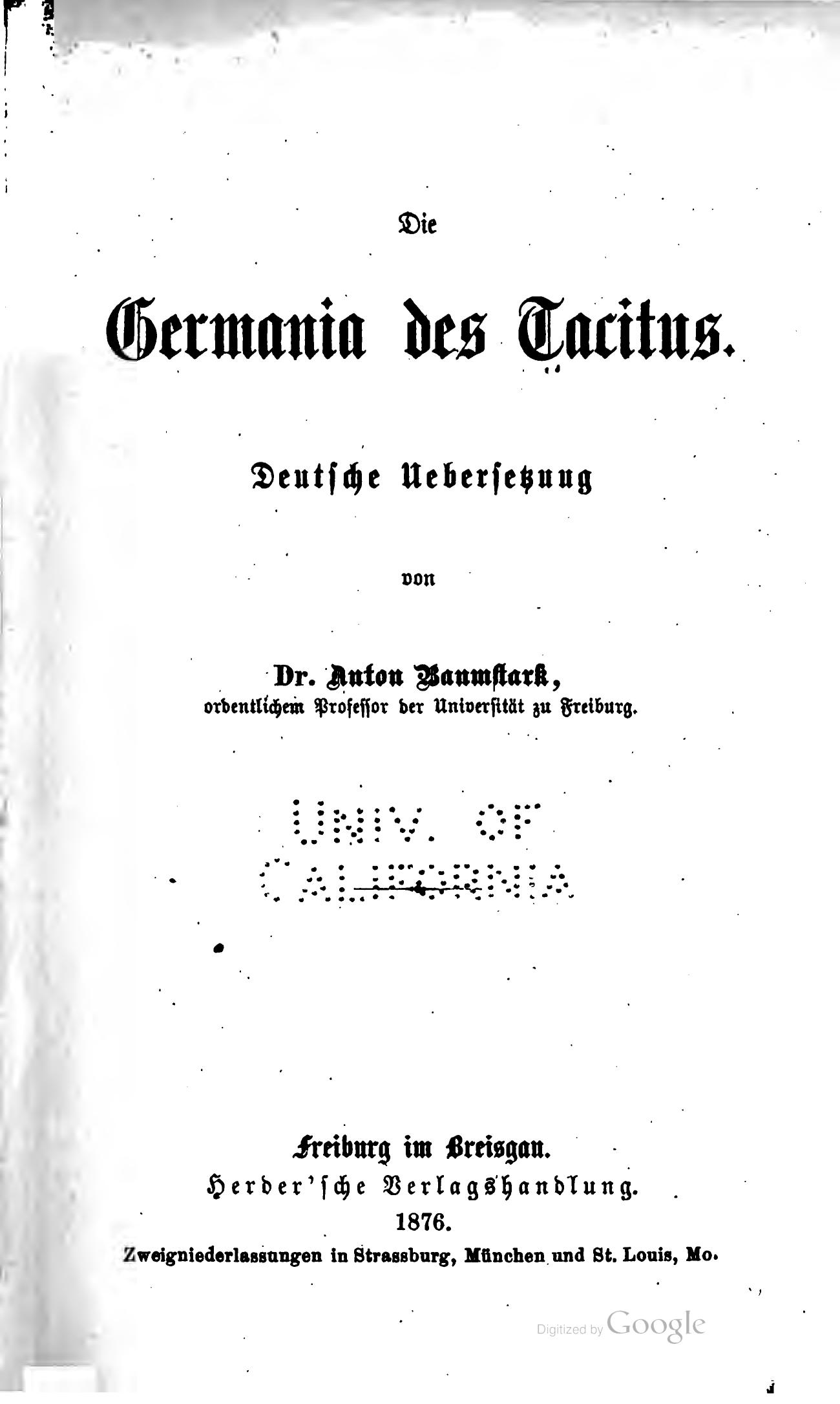 This is a scan of the historical document: Die Germania des Tacitus